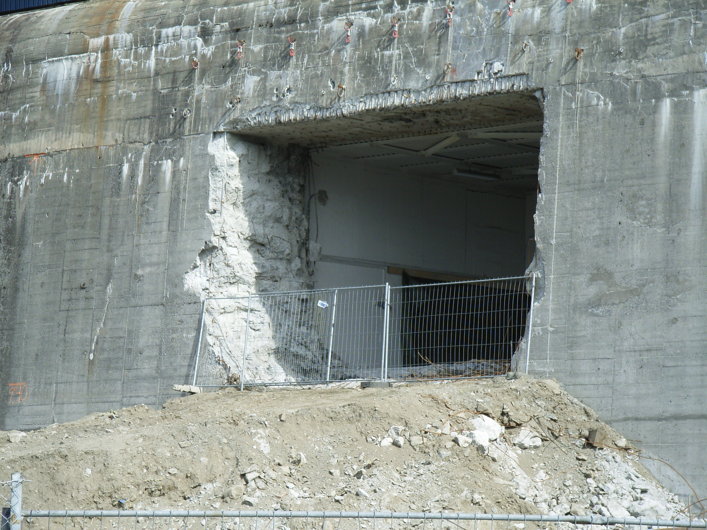 Creating a hole in Dora, a submarine bunker in Trondheim.